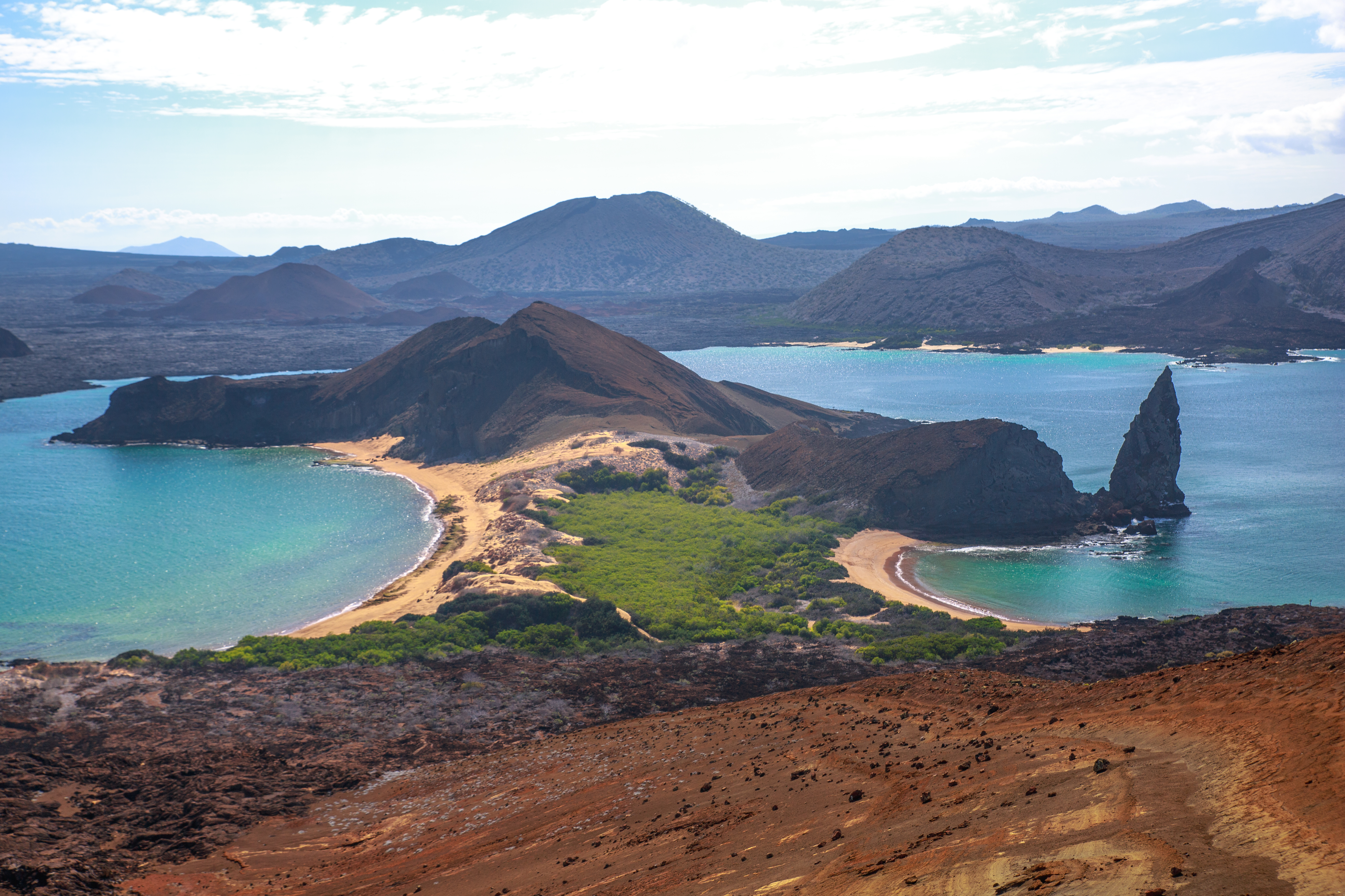 final land excursion to Isla Bartomome and the lava beds on the E coast of Isla San Salvadore...last big climb up to the iconic Pinnacle Rock viewpoint...